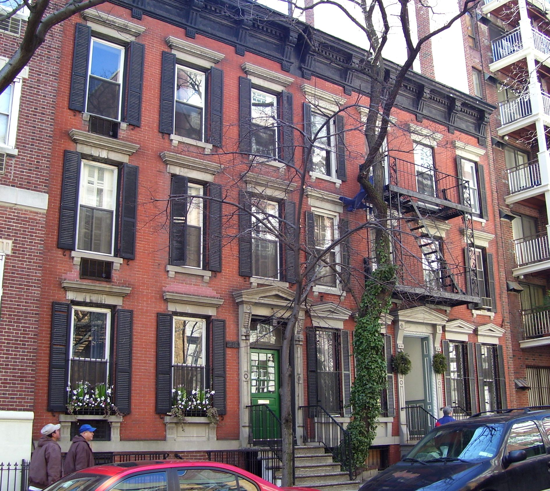 434-438 East 88th Street between First and York Avenues in the Yorkville neighborhood of Manhattan, New York City, were built c.1860. (Source: AIA Guide to NYC (4th ed.))